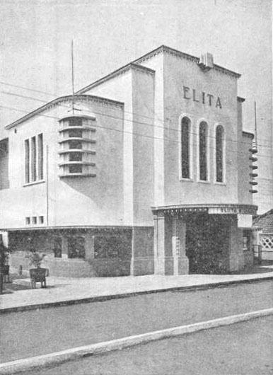 Bioscoop Elita in Bandung